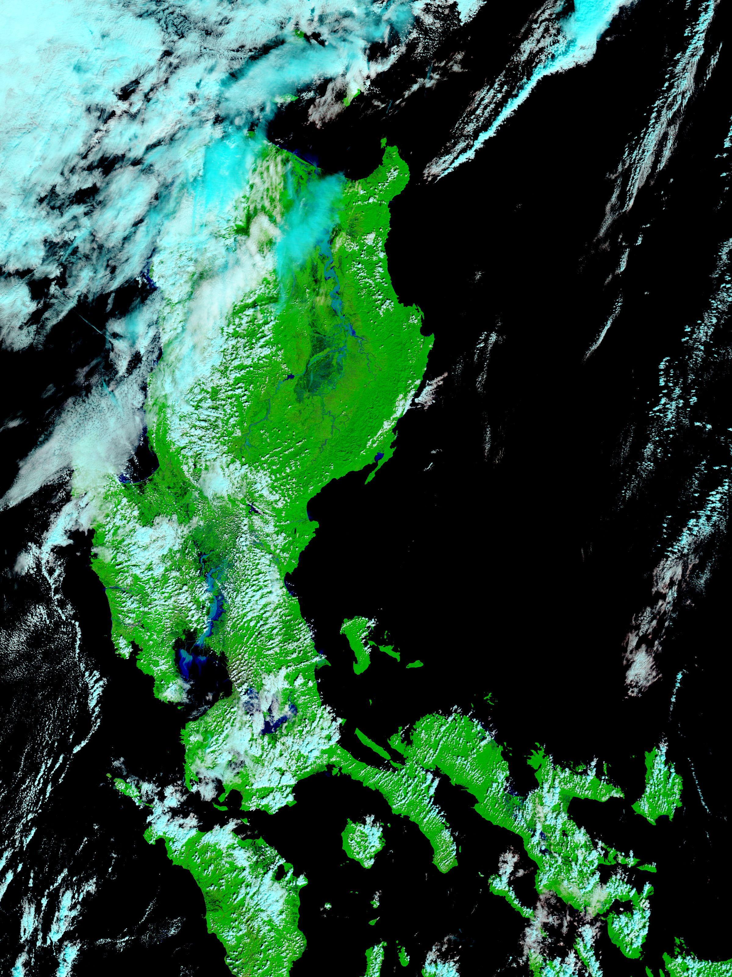 Text from the image entry on NASA Visible Earth – Four tropical storms in two weeks have saturated Luzon Island, the main island in the Philippines, causing devastating flooding. The Moderate Resolution Imaging Spectroradiometer (MODIS) on NASA’s Terra satellite captured this image of the island after the clouds from the most recent storm, Typhoon Nanmadol, cleared on December 4, 2004. Rivers throughout the island are swollen far beyond their normal size, as shown in the comparison image acquired on October 19. The most dramatic flooding is along the Cagayan River in the north and the Pampanga River in the south, but other rivers are also swollen. Further evidence of flooding is in the color of the water. In this false color treatment, water is typically dark blue or black. In the flood image, the water is light blue—a sign that it is tinted with sediment. A light blue plume in Manila Bay is also sediment. As flood waters gush over the land, they carry mud into the rivers and the surrounding ocean. The sediment is more obvious in the true color version of the image, where Manila Bay appears to be filled with mud. Over 1,000 people are dead or missing as a result of flooding and landslides in the past week, according to media reports. The most severely impacted communities are in the Sierra Madre, where landslides buried whole communities.